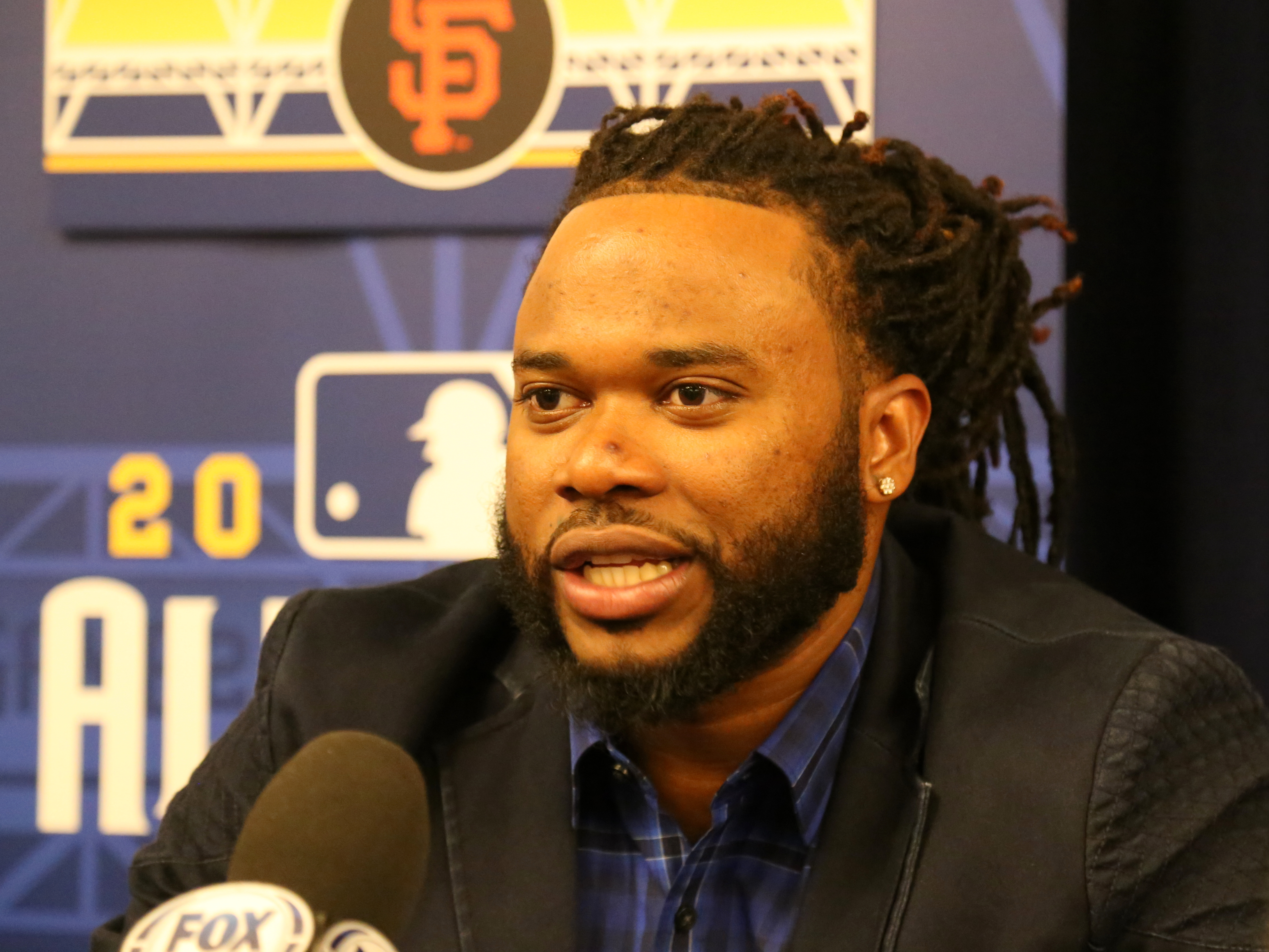 Giants pitcher Johnny Cueto talks to reporters at 2016 All-Star Game availability.